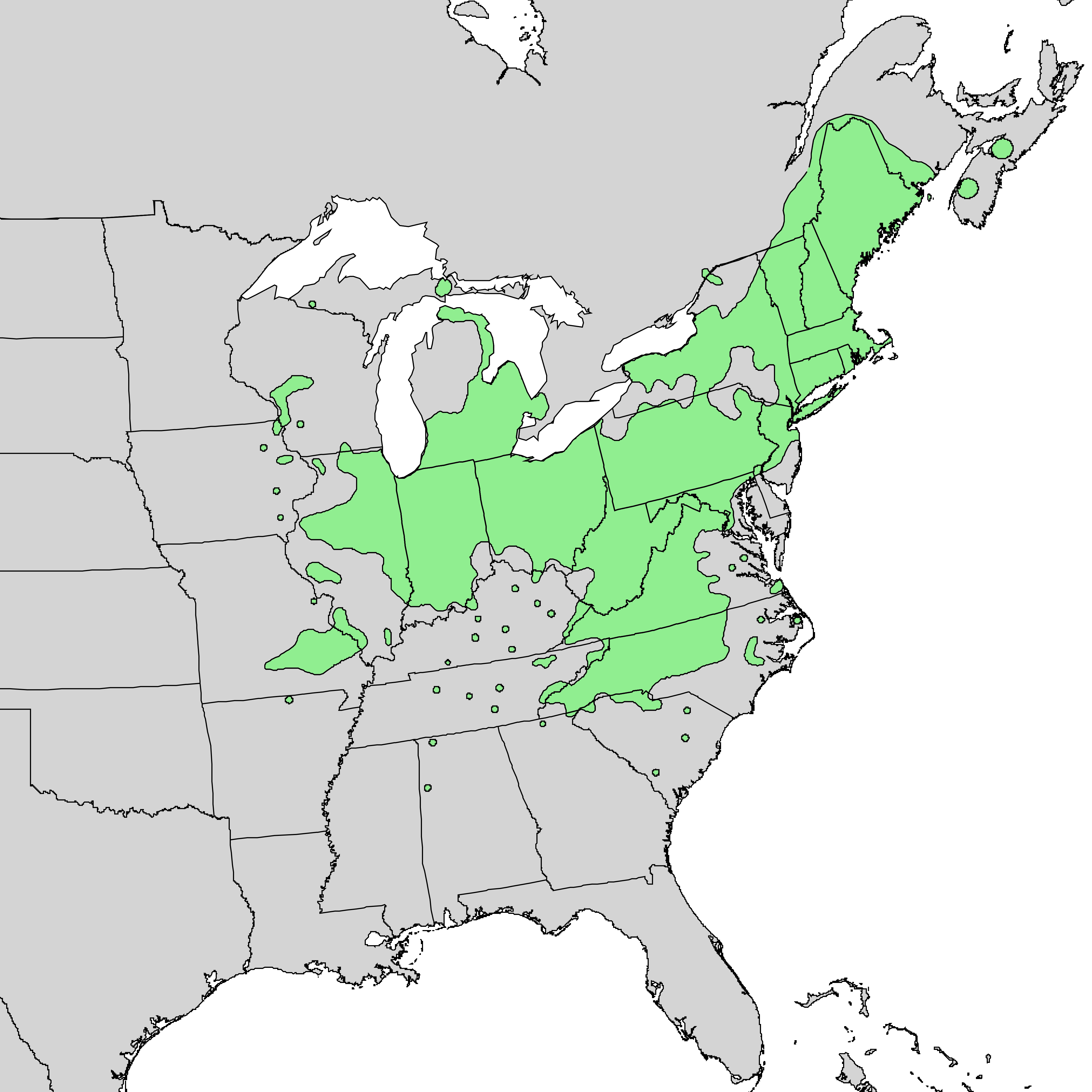 Natural distribution map for Salix sericea (silky willow)